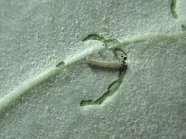 Plain tiger caterpillar in first instar. creating a moat on leaf of calotropis gigantia